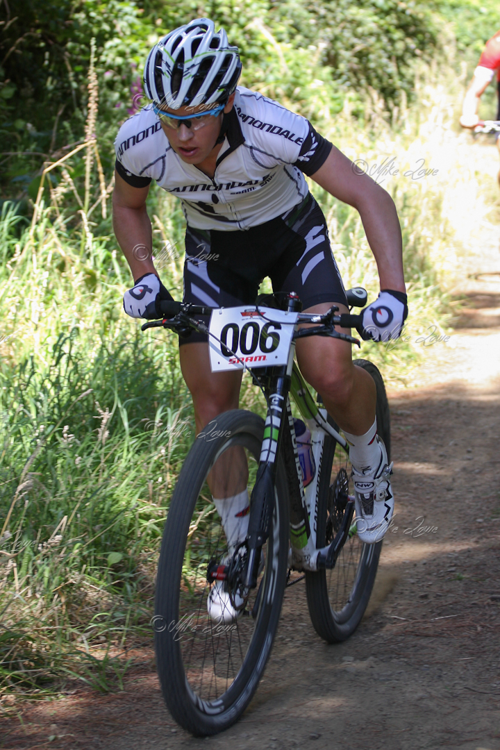 006, Anton Cooper, Woodend, In round two of the NZ MTB Cup Cross Country, Nelson, New Zealand, 2 February 2014, Mike Lowe /